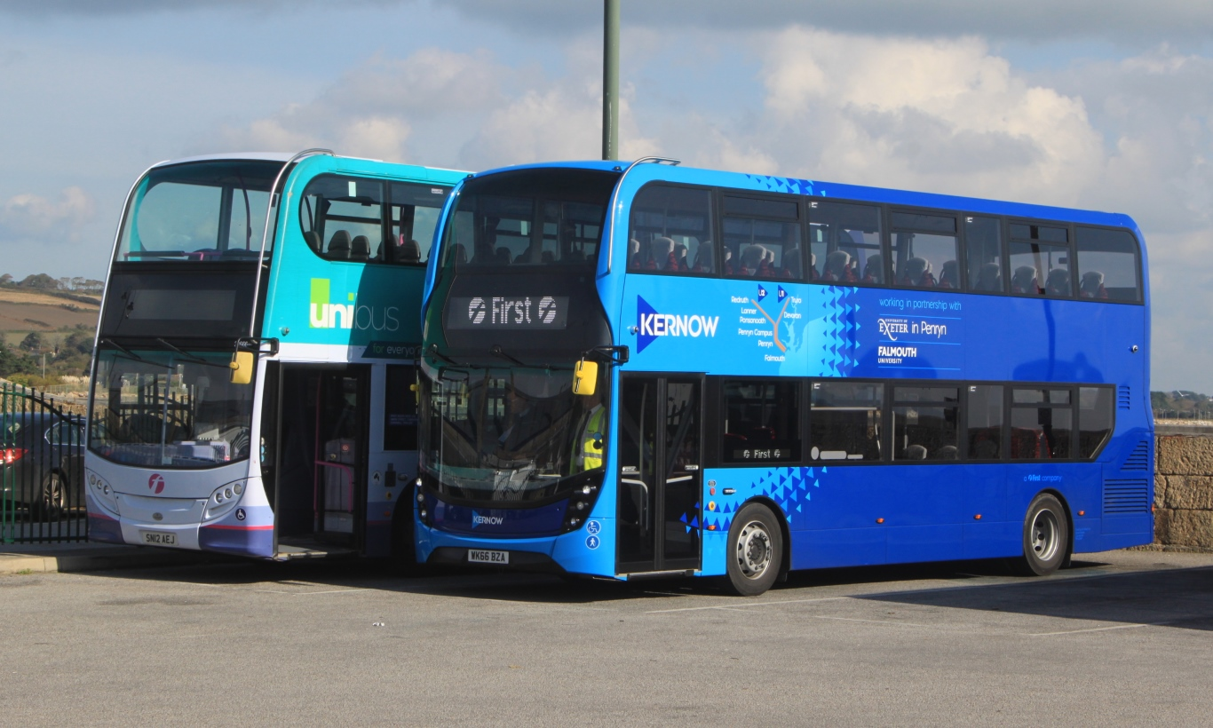 Two First Kernow buses from Penryn university routes have found their way to Penzance bus station. On the left is 33666 is an Enviro400 registered SN12AEJ. Alongside is 33476, a new Enviro400MMC registered WK66BZA.